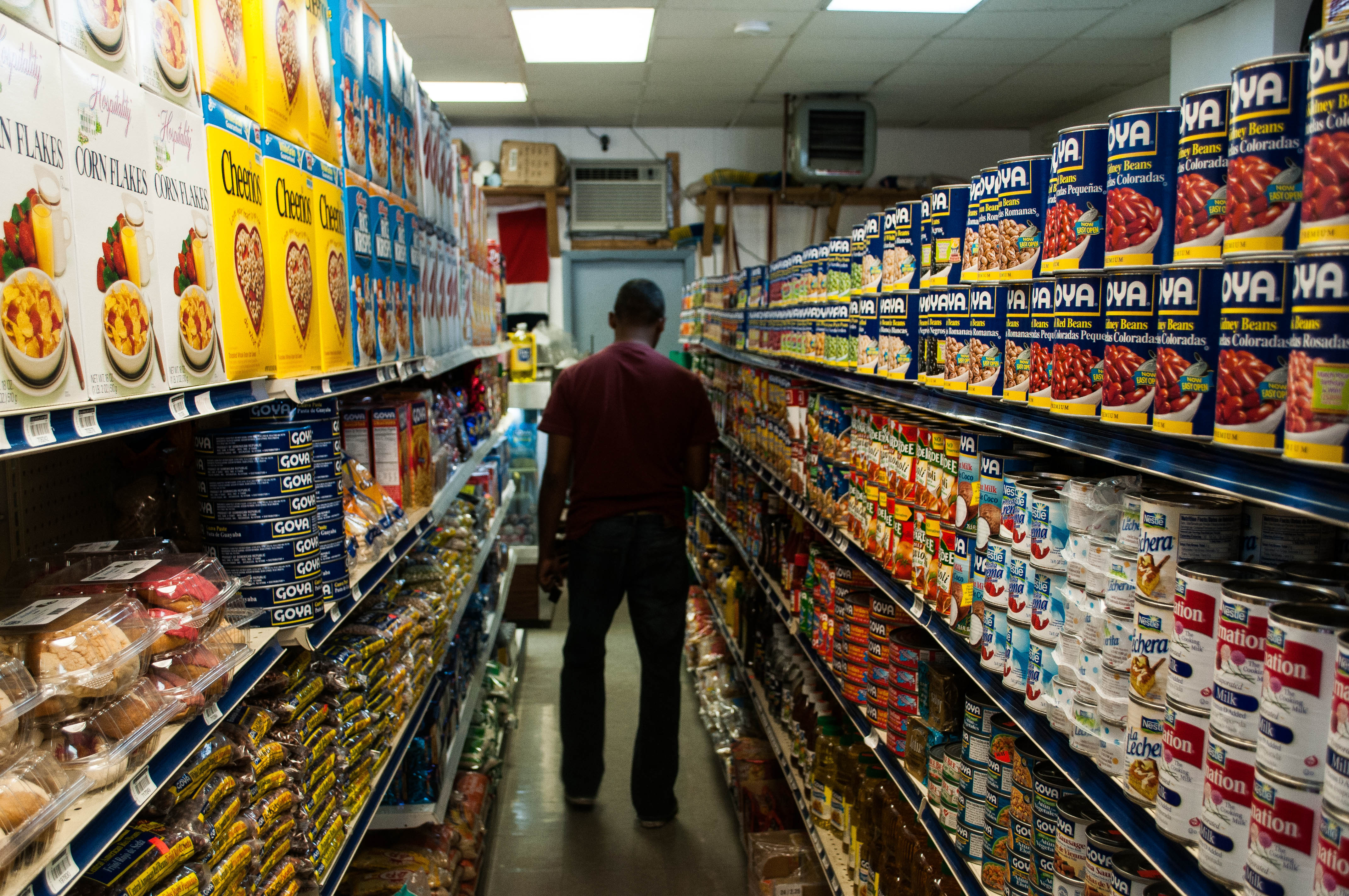 A corner shop in Boston, Massachusetts.